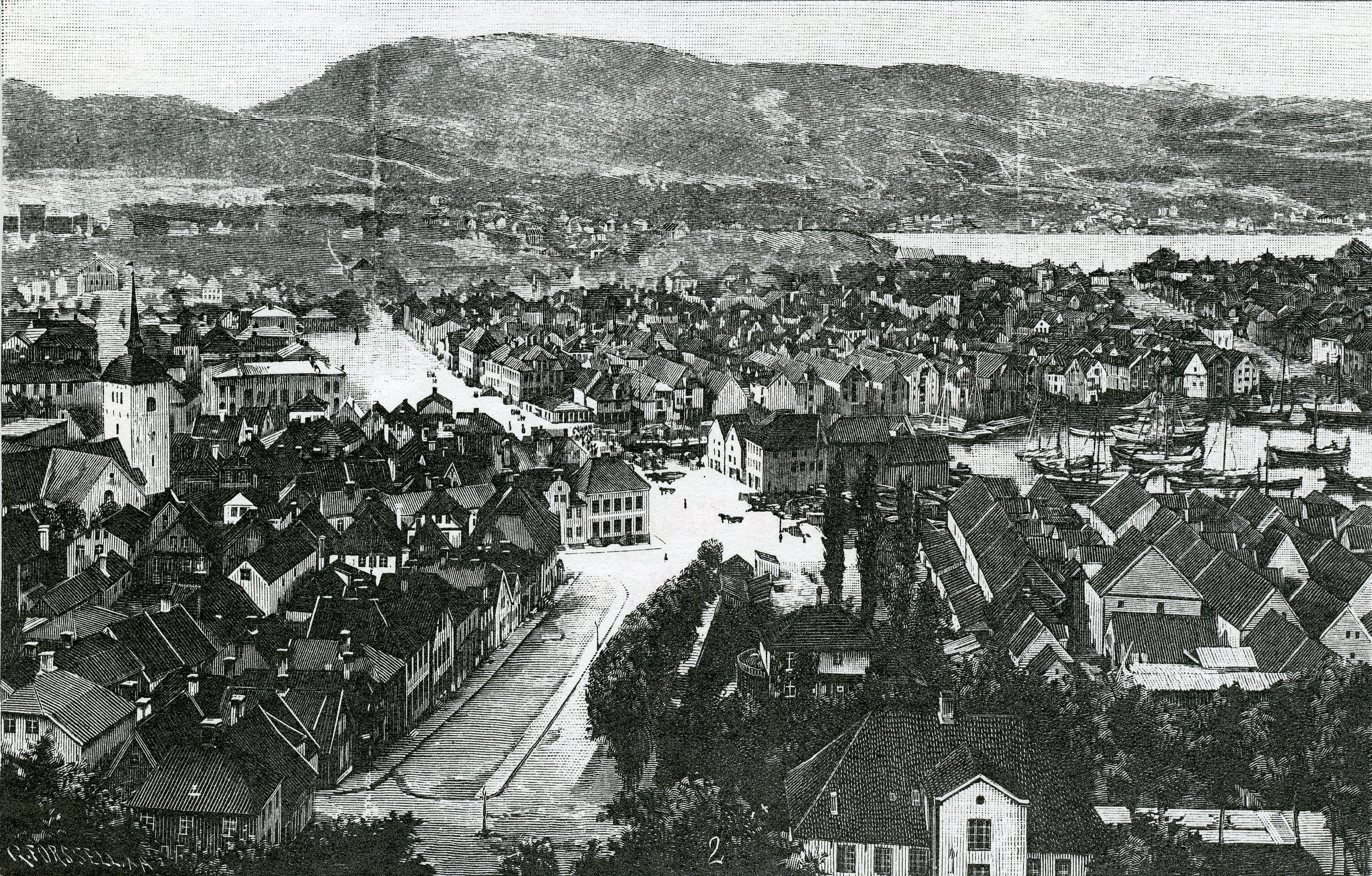 Bergen